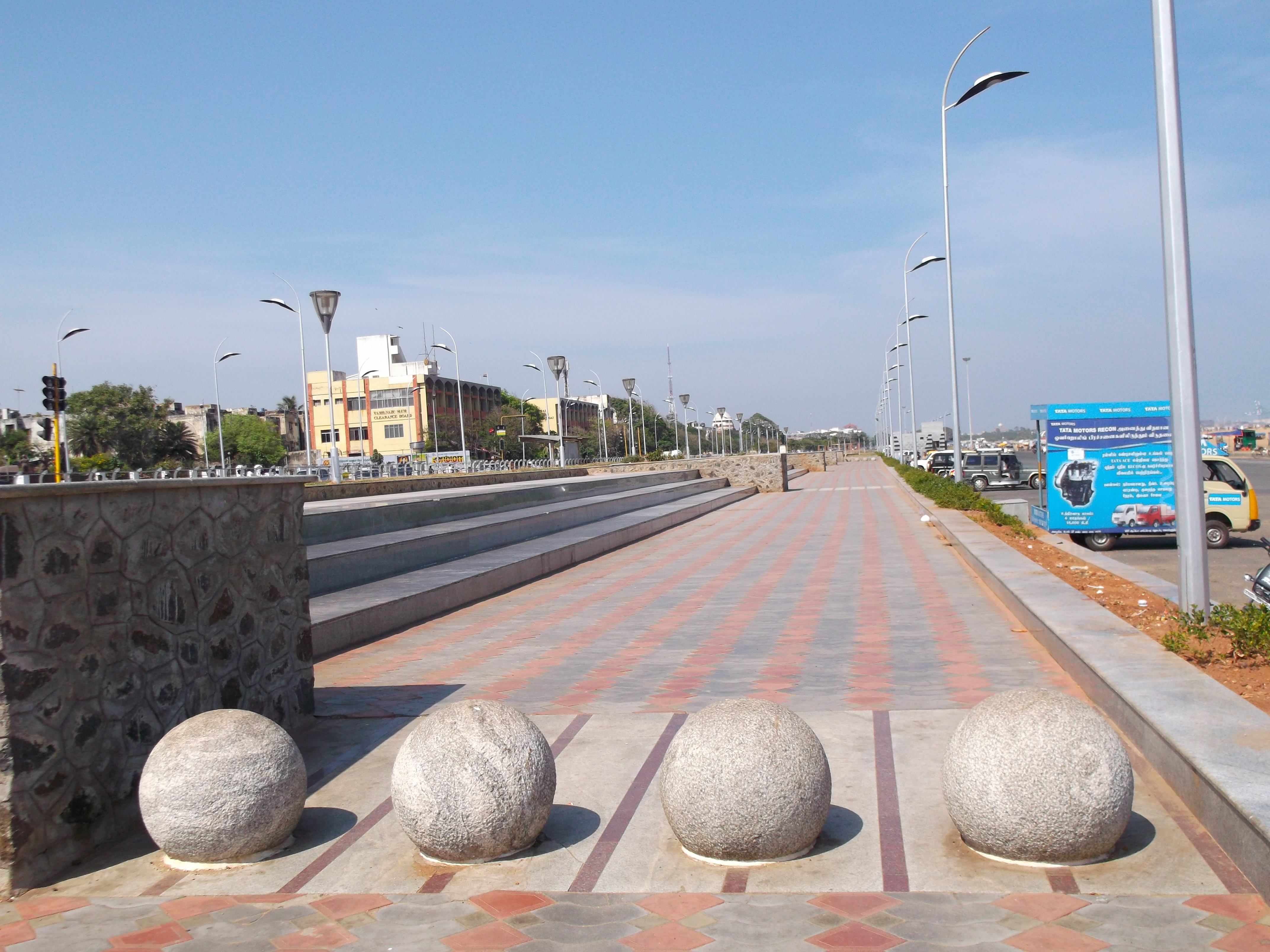 Promenade at Marina Beach, towards north, taken on 2-Feb-2013, at 3:00 pm